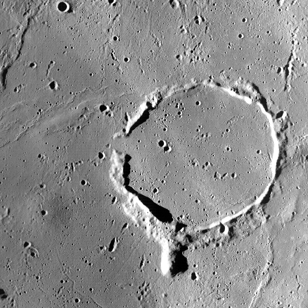 Crater Kies on the Moon, in Mare Nubium. A lunar dome (shield volcano) Kies Pi is seen in the lower left. Photo by Lunar Reconnaissance Orbiter, made with Wide Angle Camera on 9 January 2010 from altitude 48 km. Sun elevation is 8.7°. Width of the photo is 90 km, north is up.